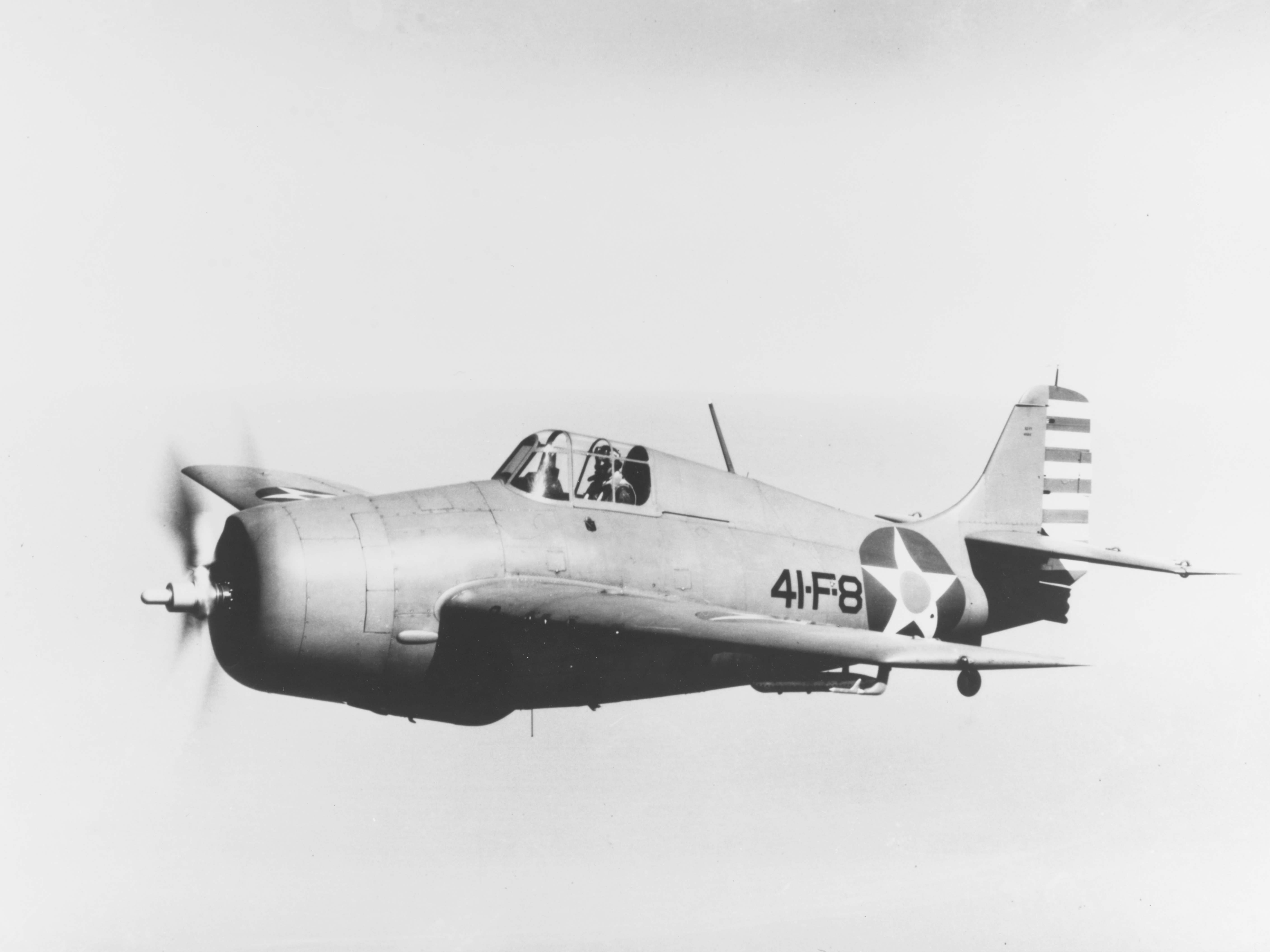 A U.S. Navy Grumman F4F-4 Wildcat of Fighting Squadron 41 (VF-41) in flight, in early 1942.